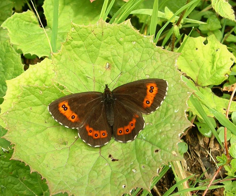 Erebia ligea family Satyridae photo by Jeffdelonge 08:50, 16 October 2005 (UTC) Les-Verrières-de-Joux France 30-07-2005